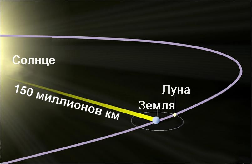 Crude diagram of Sun shining light on Earth with distance marked